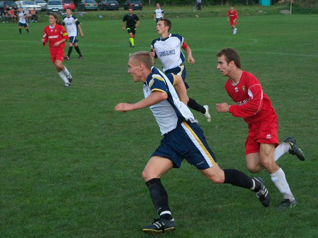 Football match: LKS Tempo Paniówki (red shirts) vs Carbo Gliwice. (white-blue shirts)